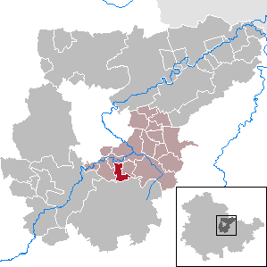 Kiliansroda in Thuringia - District Weimarer Land